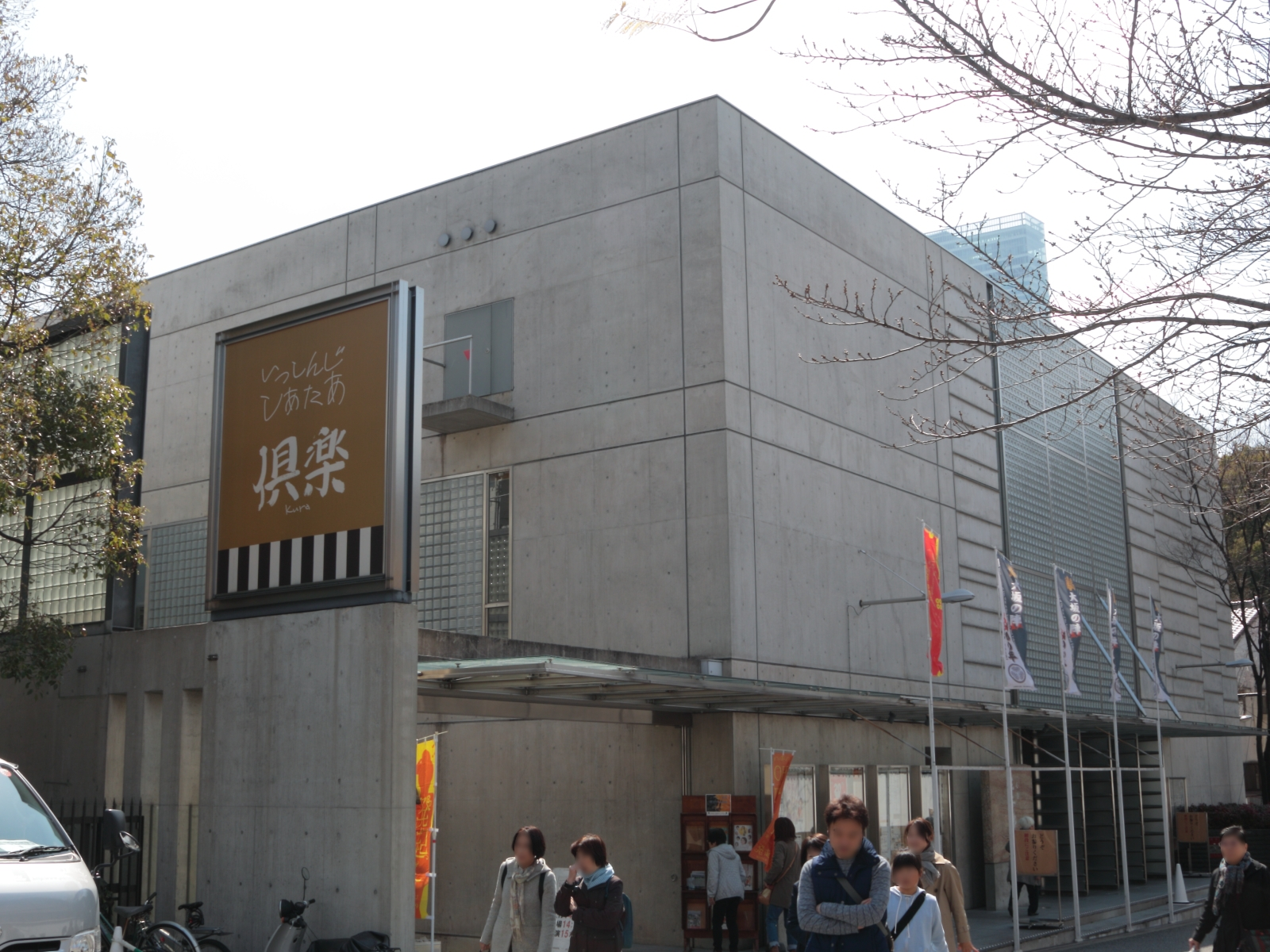 Isshinji Theater Kura. Tennoji-ku, Osaka.